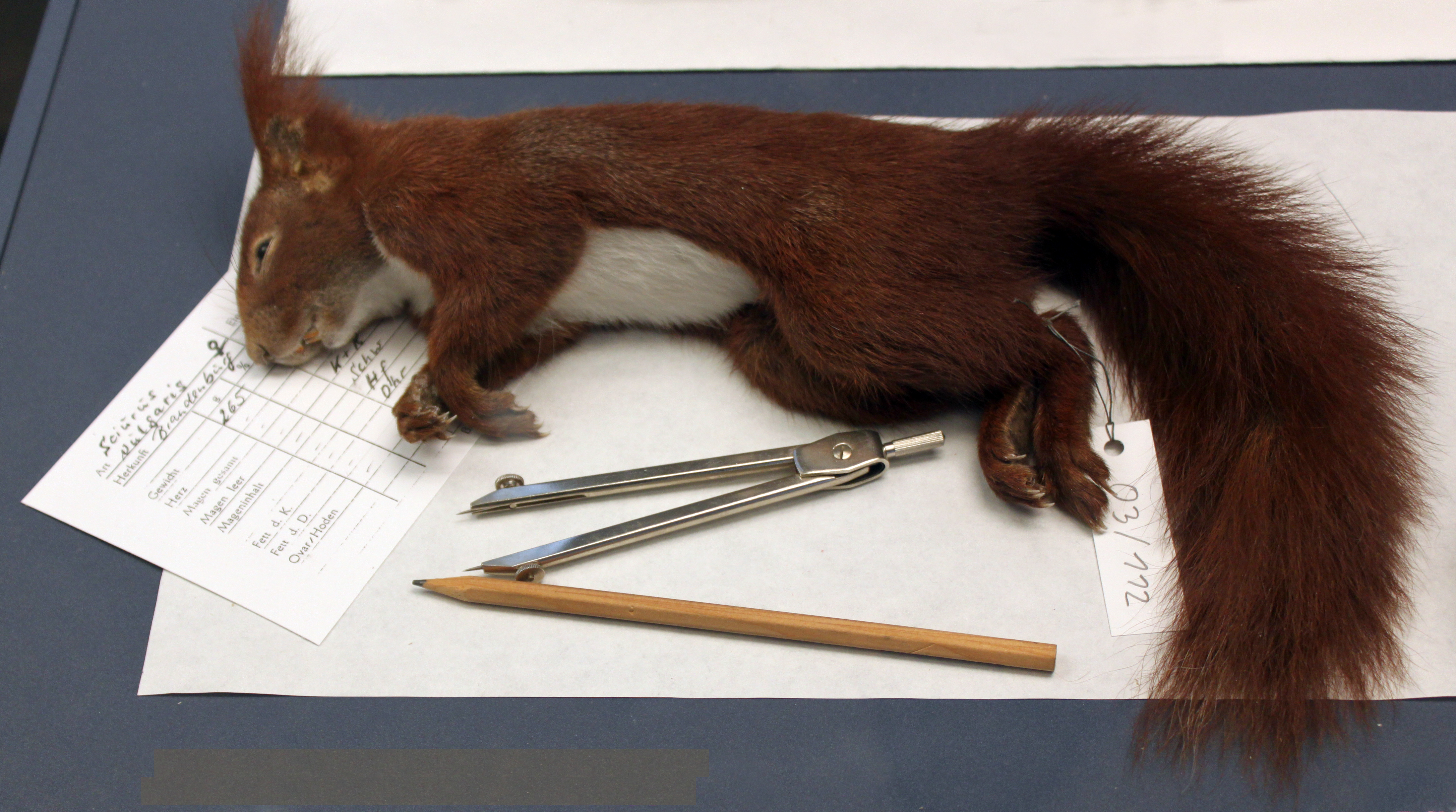 Showcase at the Natural History Museum Berlin: Taxidermy of a squirrel (Sciurus vulgaris). Preparation: Scientific measurement: Before the preparation, standardized mesurements are taken from the animal and recorded together with any indications of origin and found facts.